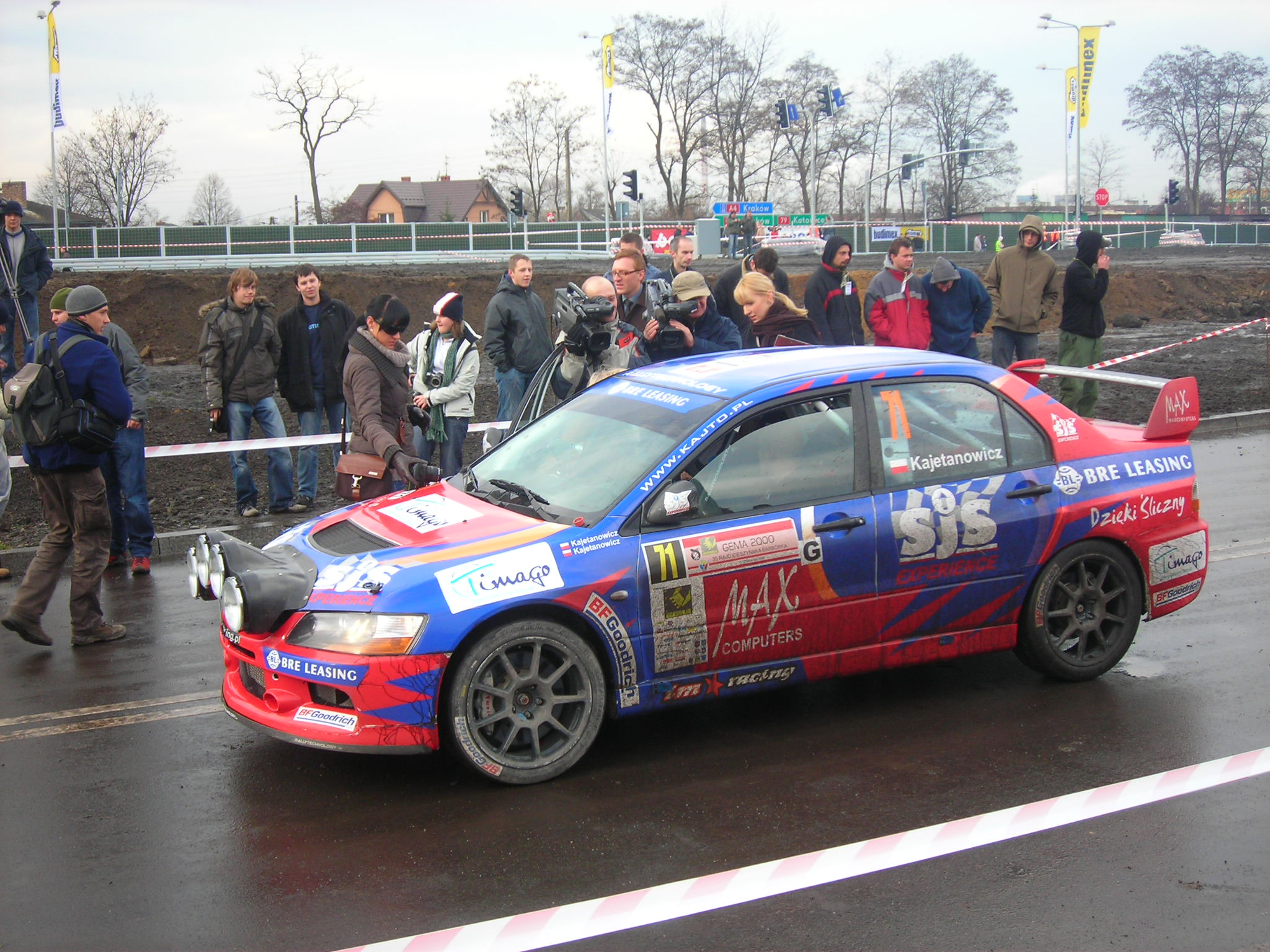 Wyścigi Jawor Sprint z okazji otwarcia jaworznickiej trasy śródmiejskiej. Mitsubishi Lancer Evo, za kierownicą Kajetan Kajetanowicz.